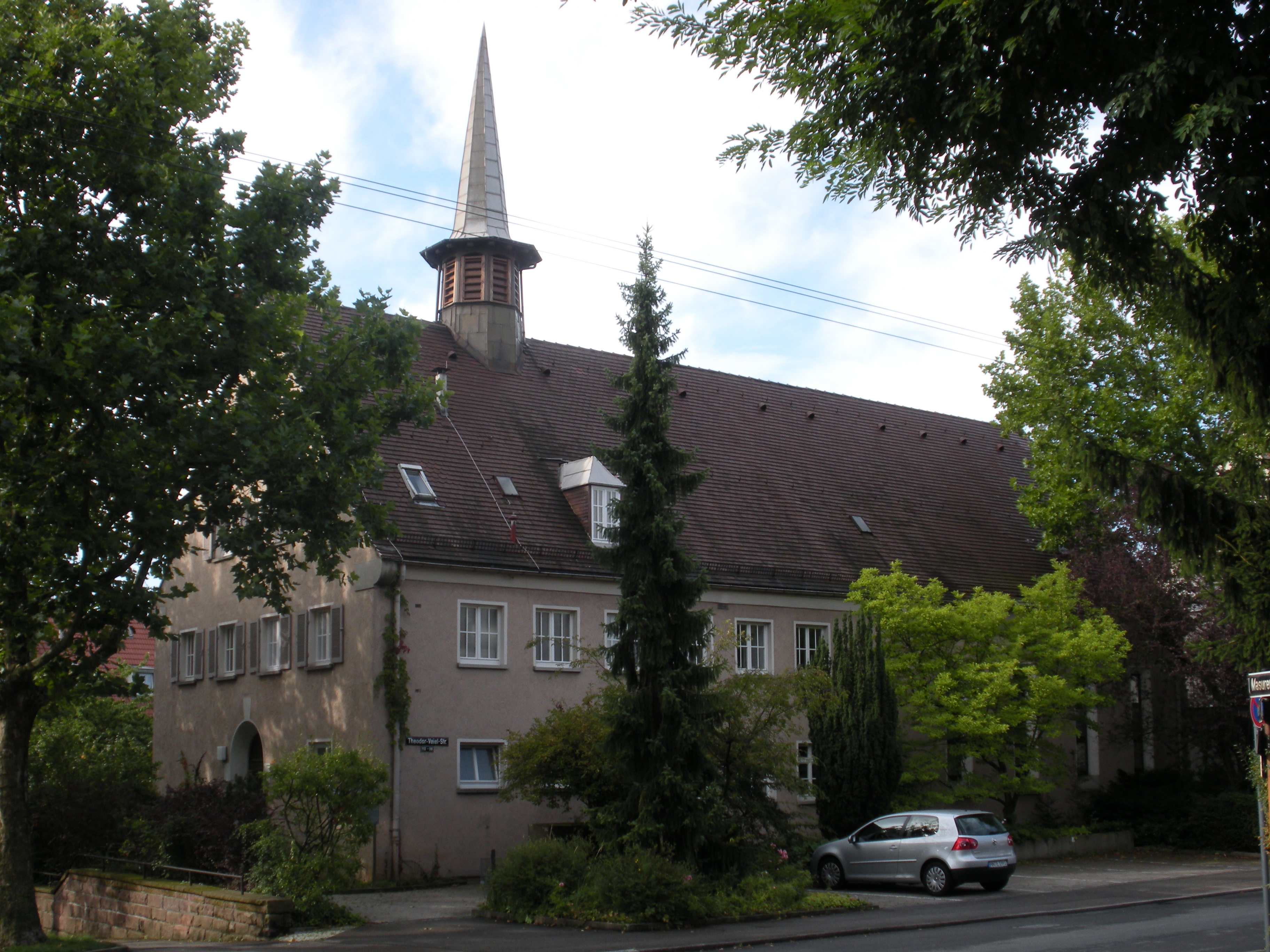 Protestant Wichern-Church Stuttgart-Bad Cannstatt